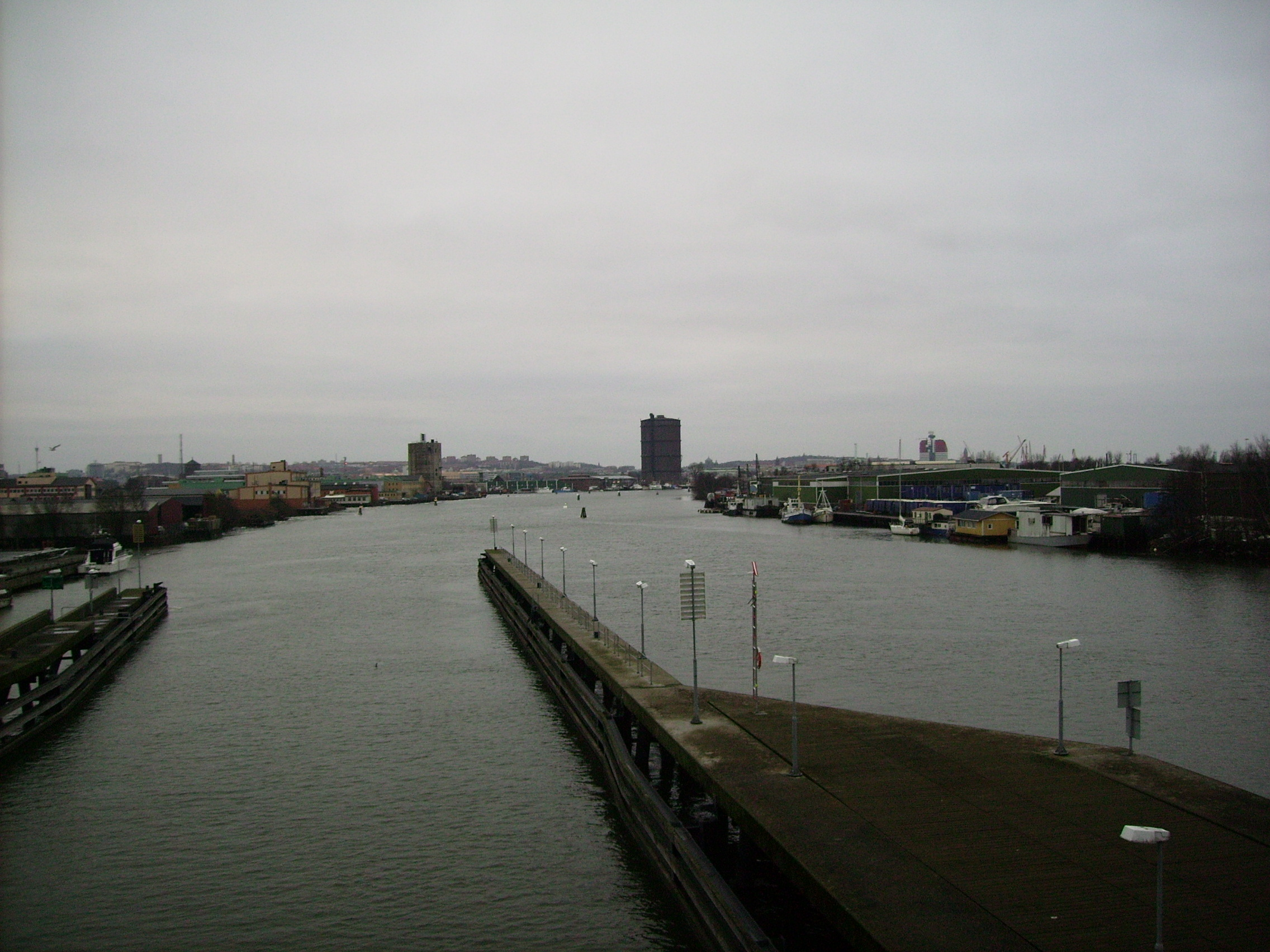 View from Marieholmsbron in Gothenburg 2009.